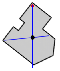 Step 3 to determine the center of gravity in an arbitrary 2D shape.